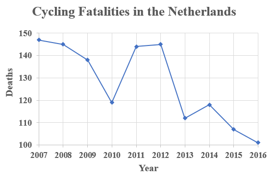 Yearly data from the European Commission on cyclist fatalities is available at accessed 26 July 2020.